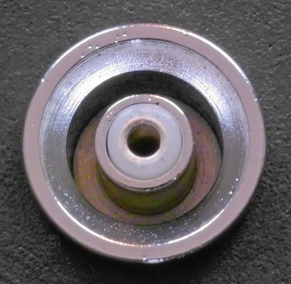 Female 1/8" pc-connector for flash synchronization.